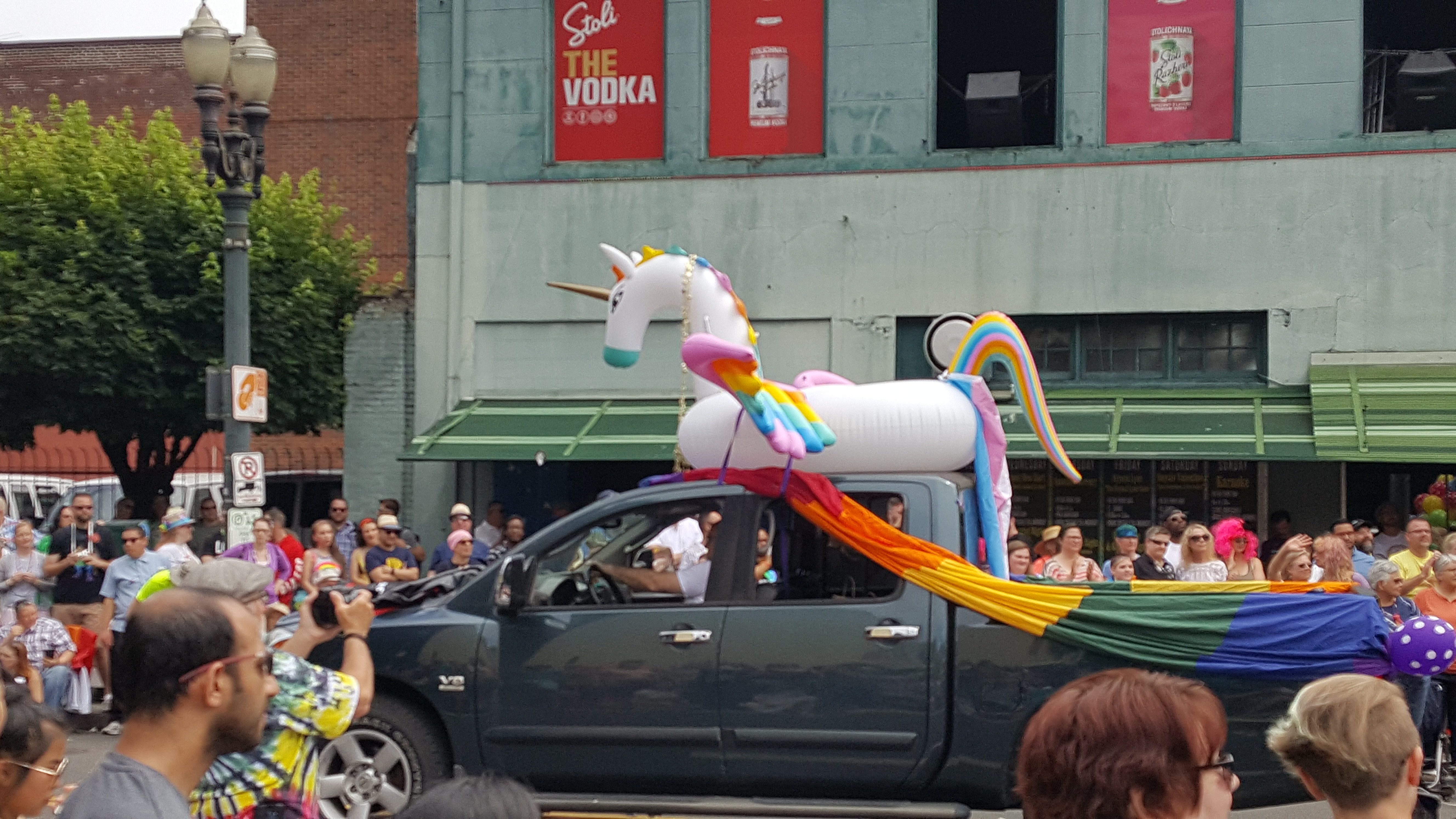 Portland Pride, 2017